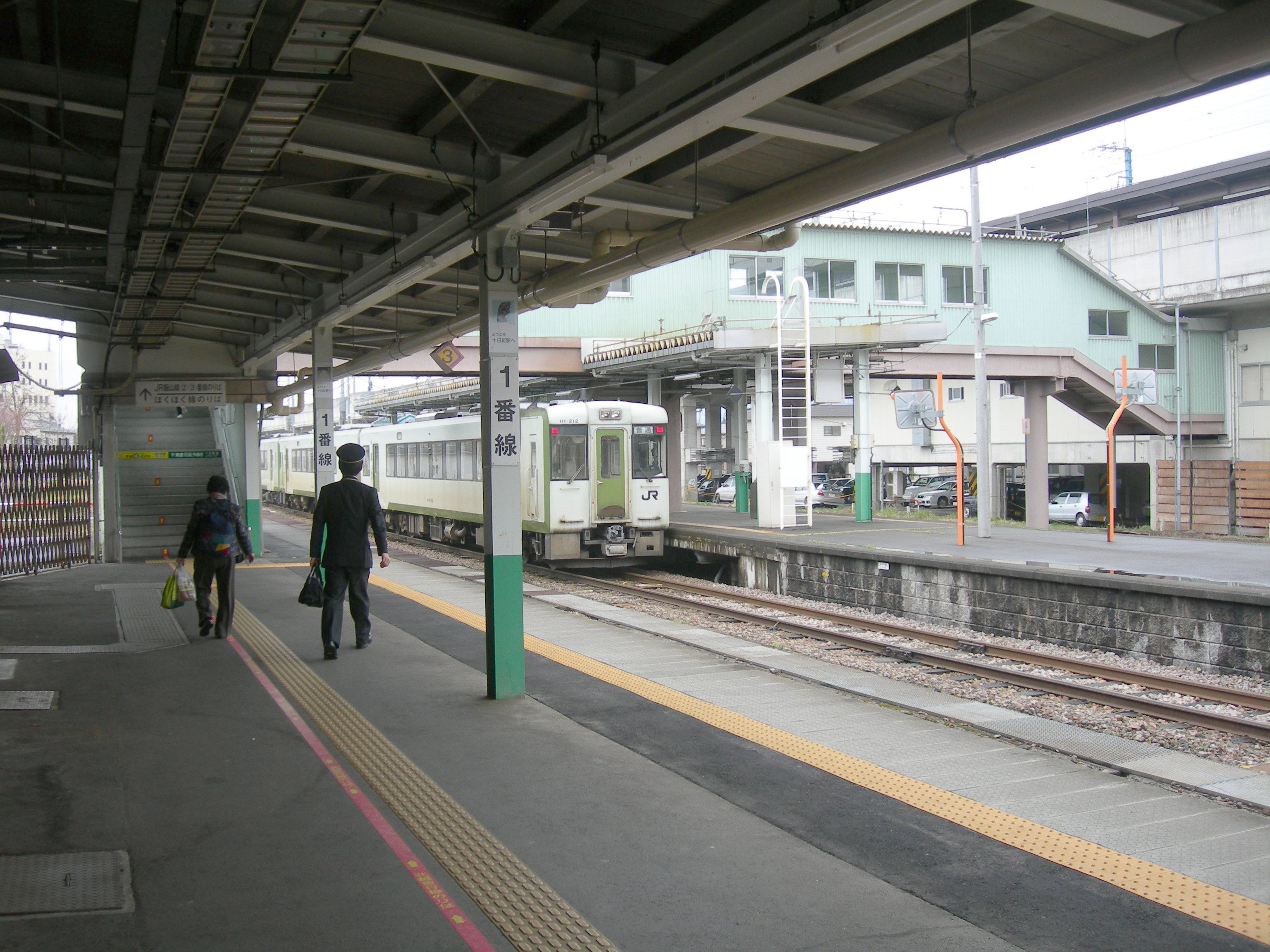 Iiyama Line platforms at Tokamachi Station